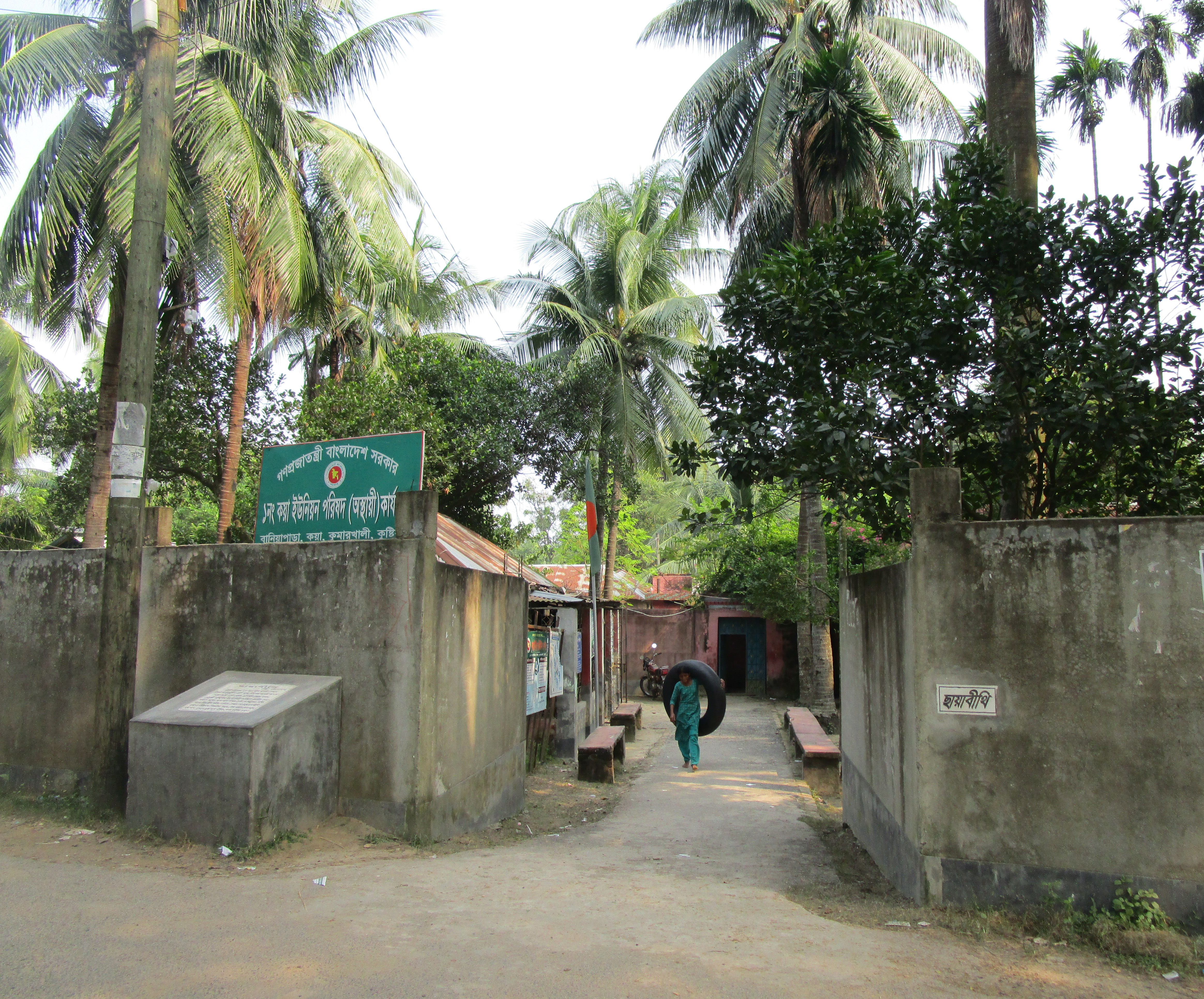 Koya Union Parishad temporary office.